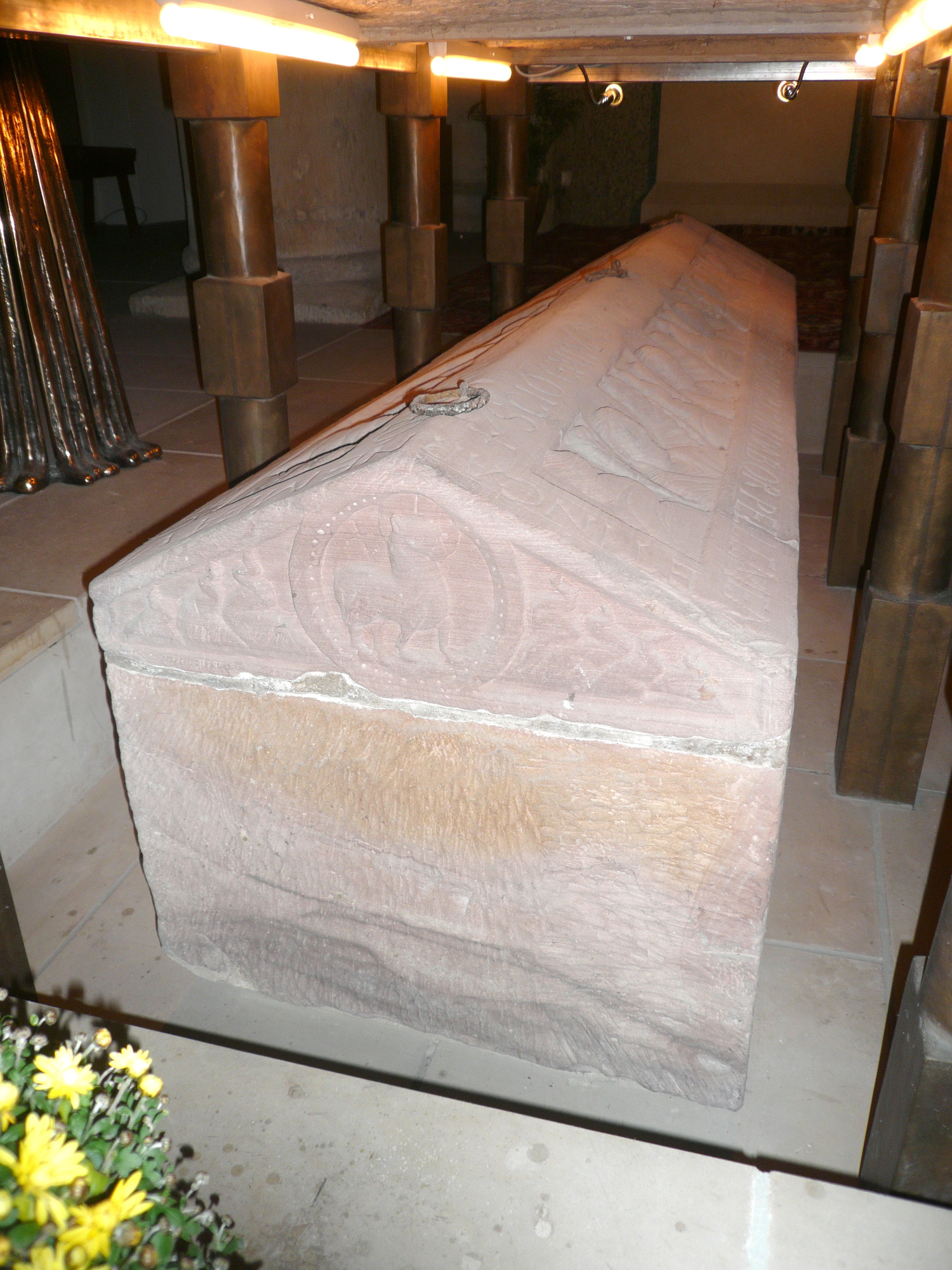 Sarcophagus of Bernward of Hildesheim in St. Michael's Church, Hildesheim